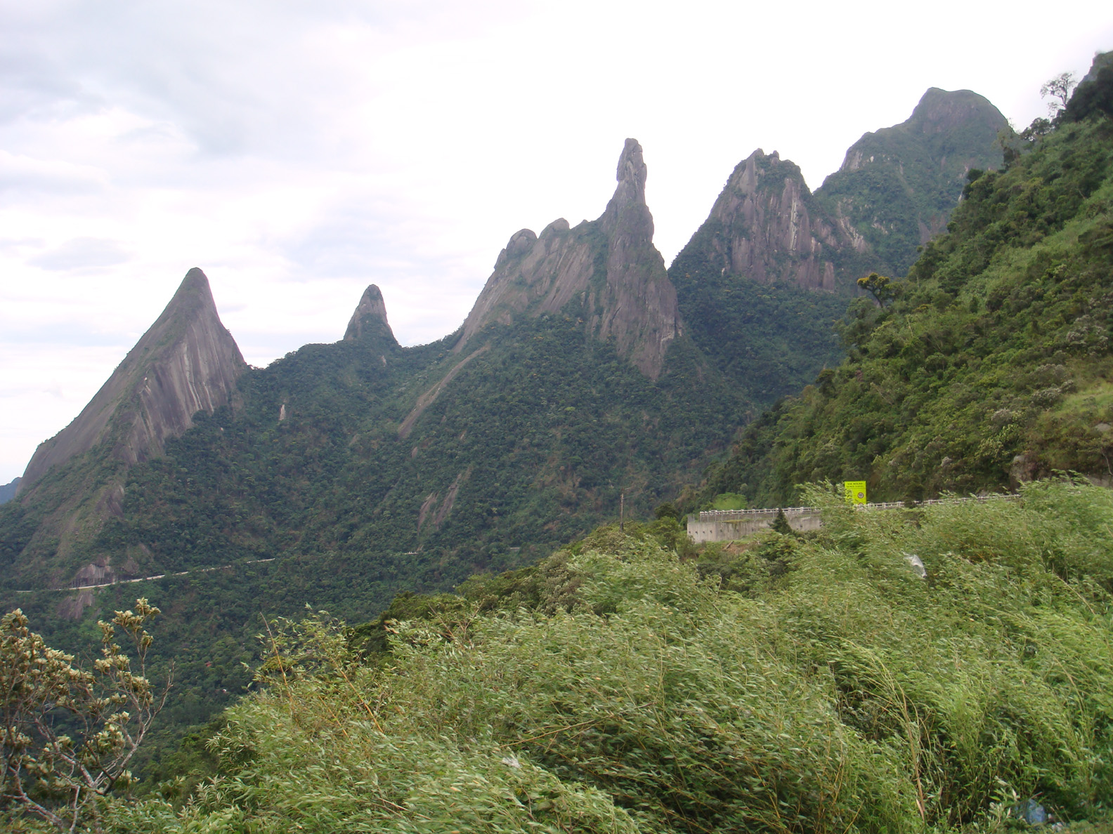 Mountains (Serra dos Órgaos) at the entrance of Teresópolis, Brazil